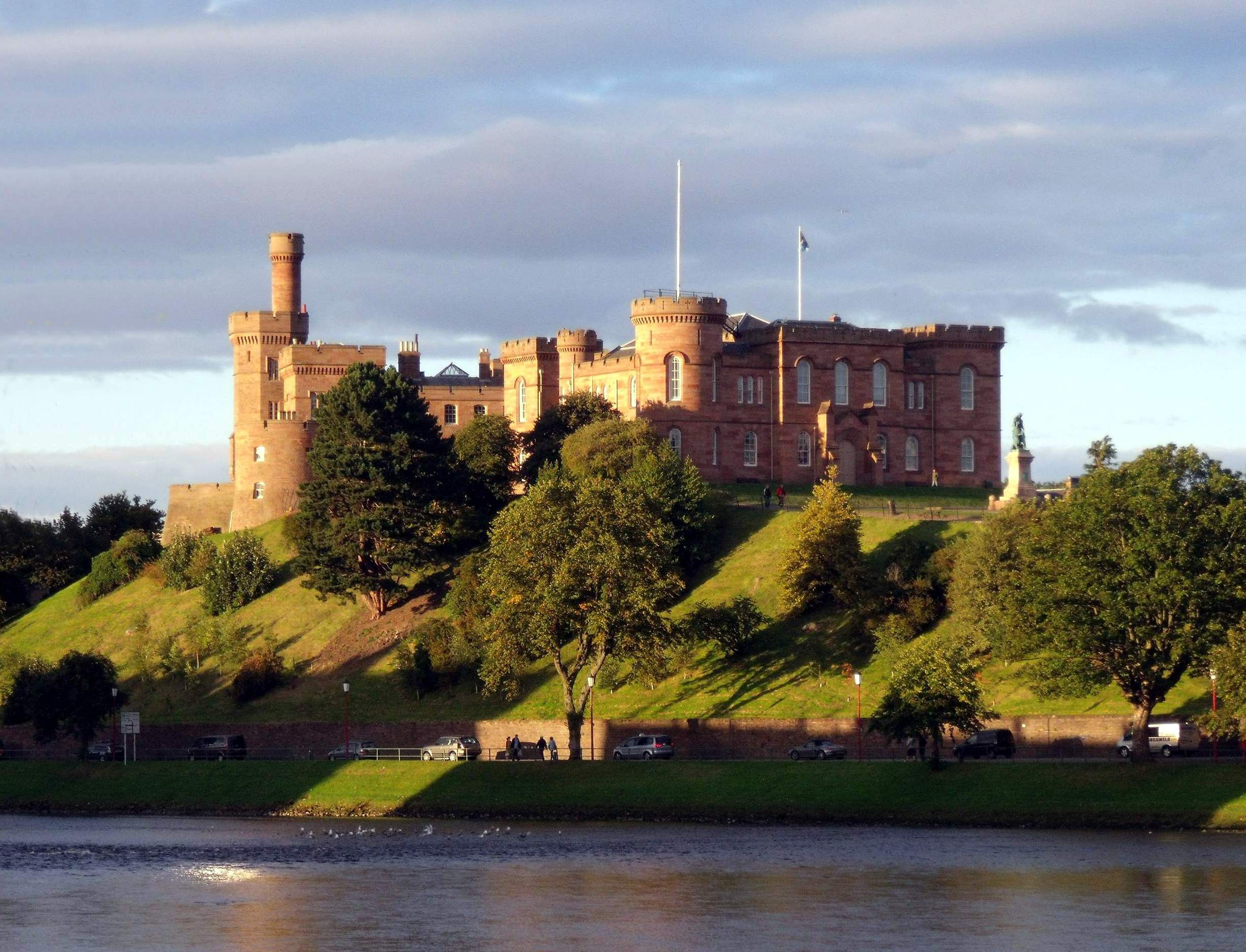 Inverness Castle and River Ness Inverness Scotland